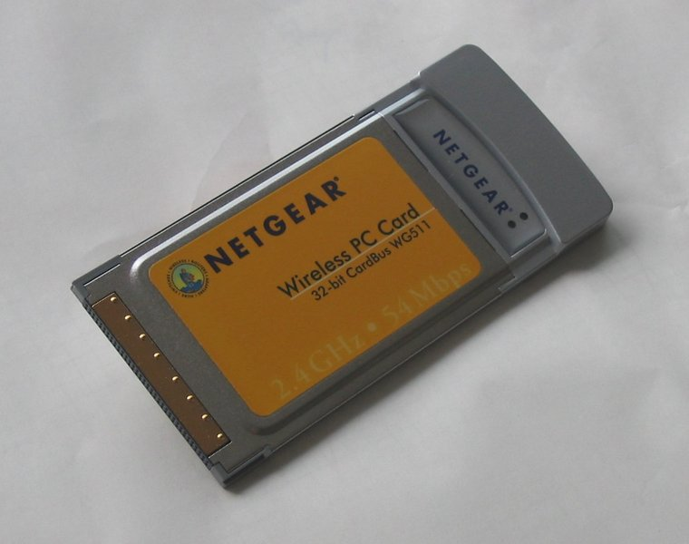 WLAN PCMCIA Card Netgear WG511 802.11b/g, PCMCIA Type II